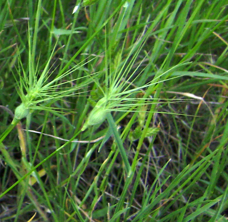 Aegilops geniculata in the wild, Castelltallat, Catalonia